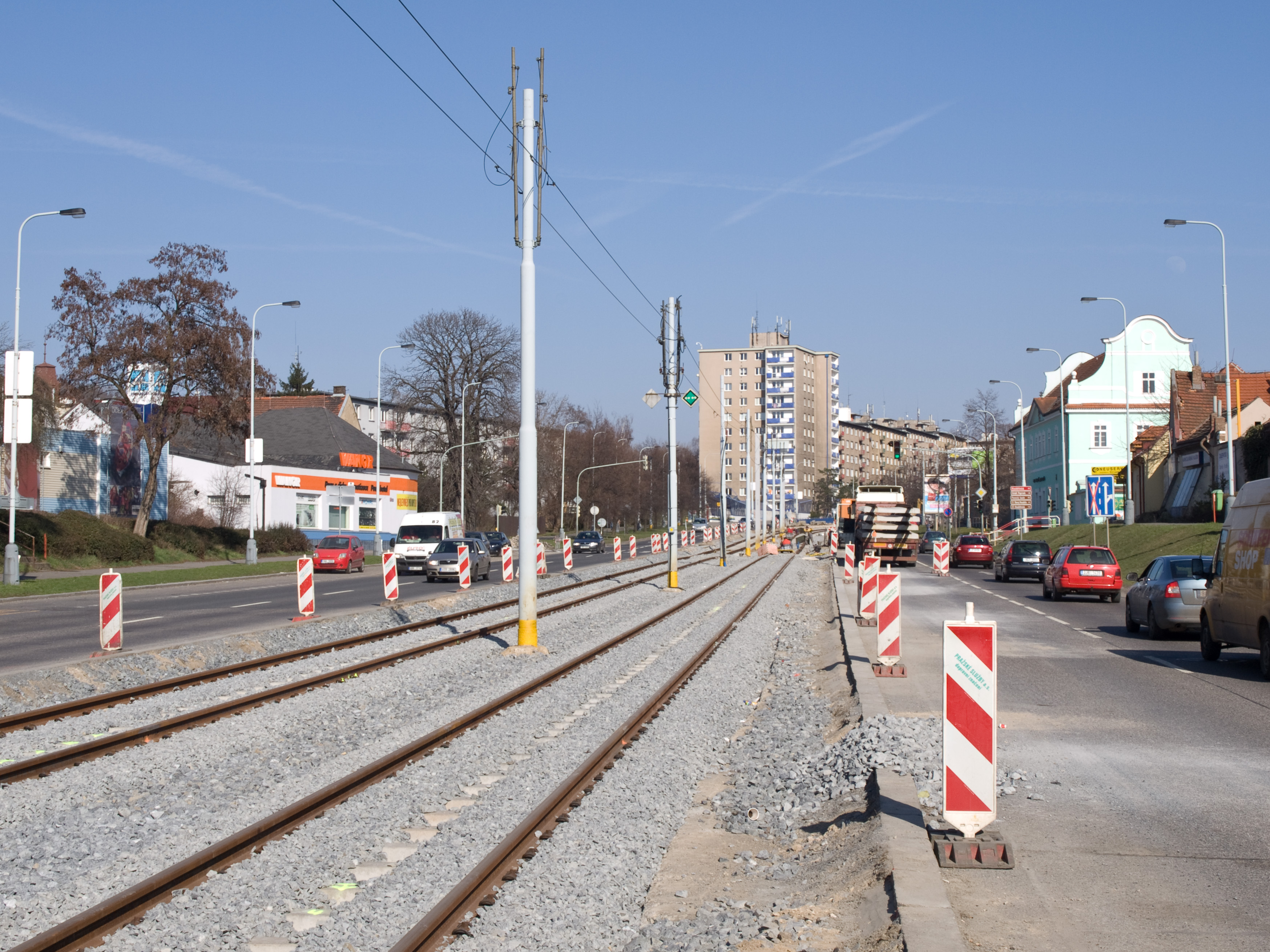 View to Lehovec from Kbelská, Reconstruction of tram track Starý Hloubětín – Lehovec, Prague 9